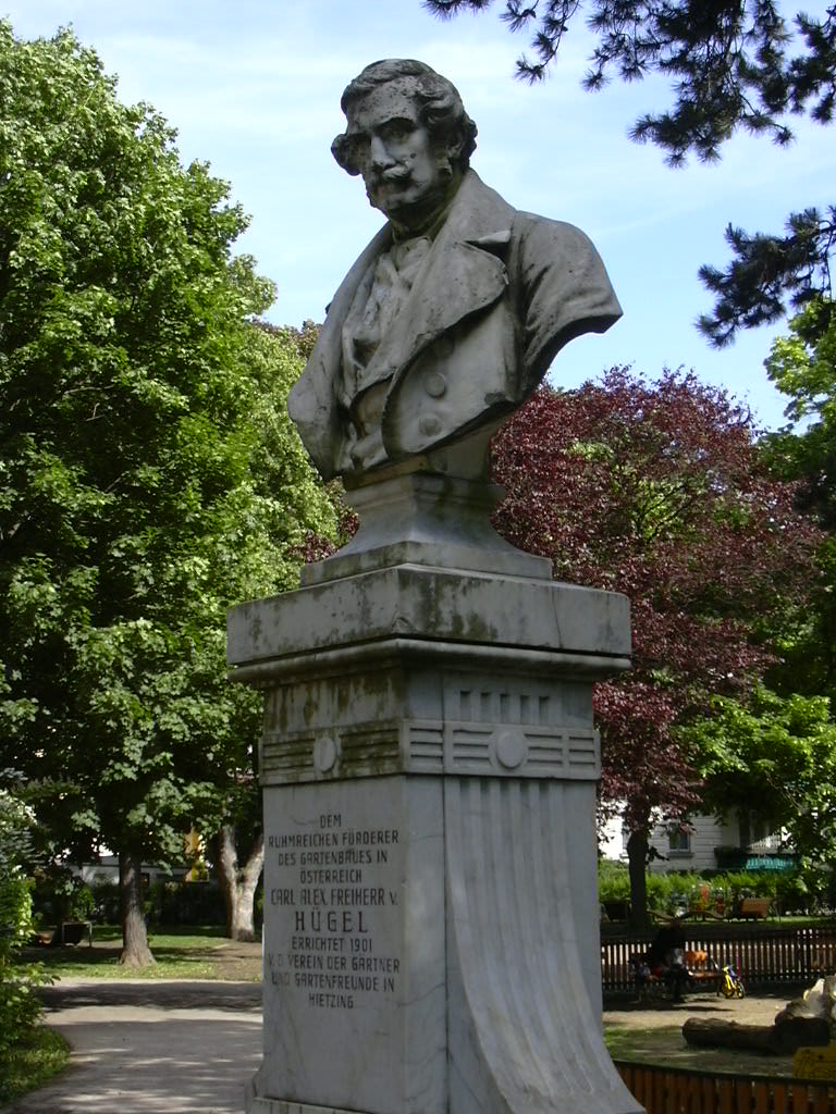 Carl von Hügel has been a great horticultural expert and therefore been honored by this monument in a park bearing his name, Hügelpark, in Vienna's 13th district (Stoesslgasse / Larochegasse / Fichtnergasse / Kupelwiesergasse).